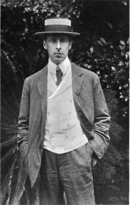 Sydney Howard Smith (1872 – 1947), English badminton and tennis player.